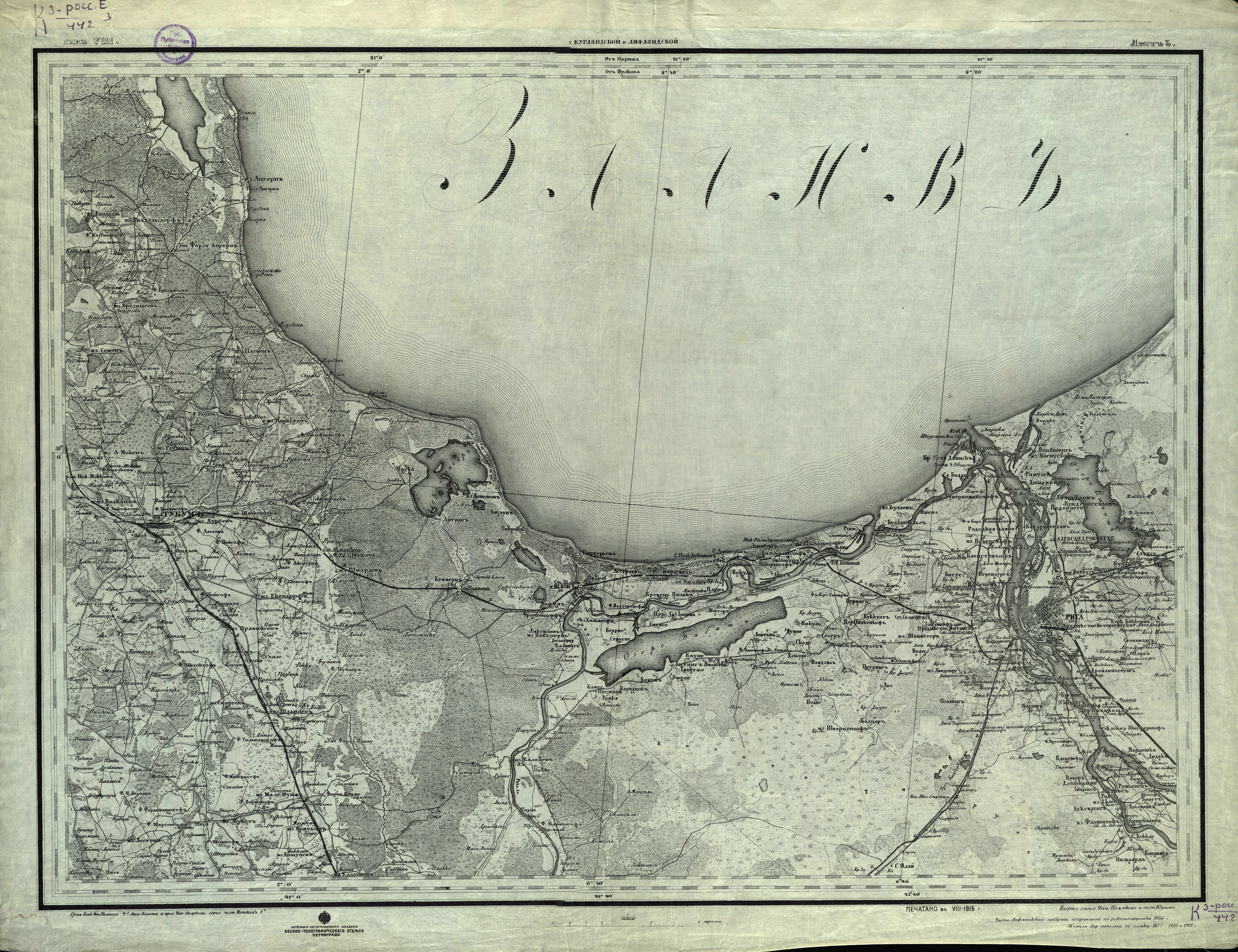 "Shubert's map". Fragment of topographic map of Russian Empire. 3 versta in inch (1260 m in 1 cm).